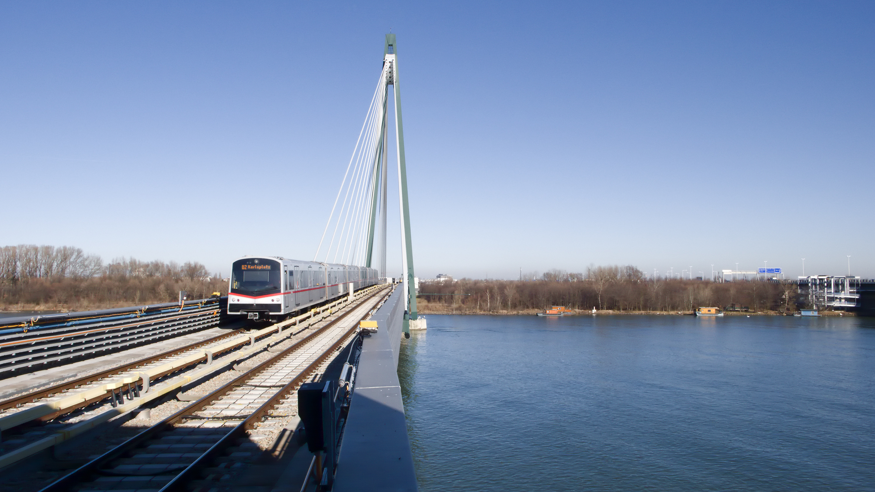 U-Bahn-Station Donaumarina of the underground line U2 in Vienna